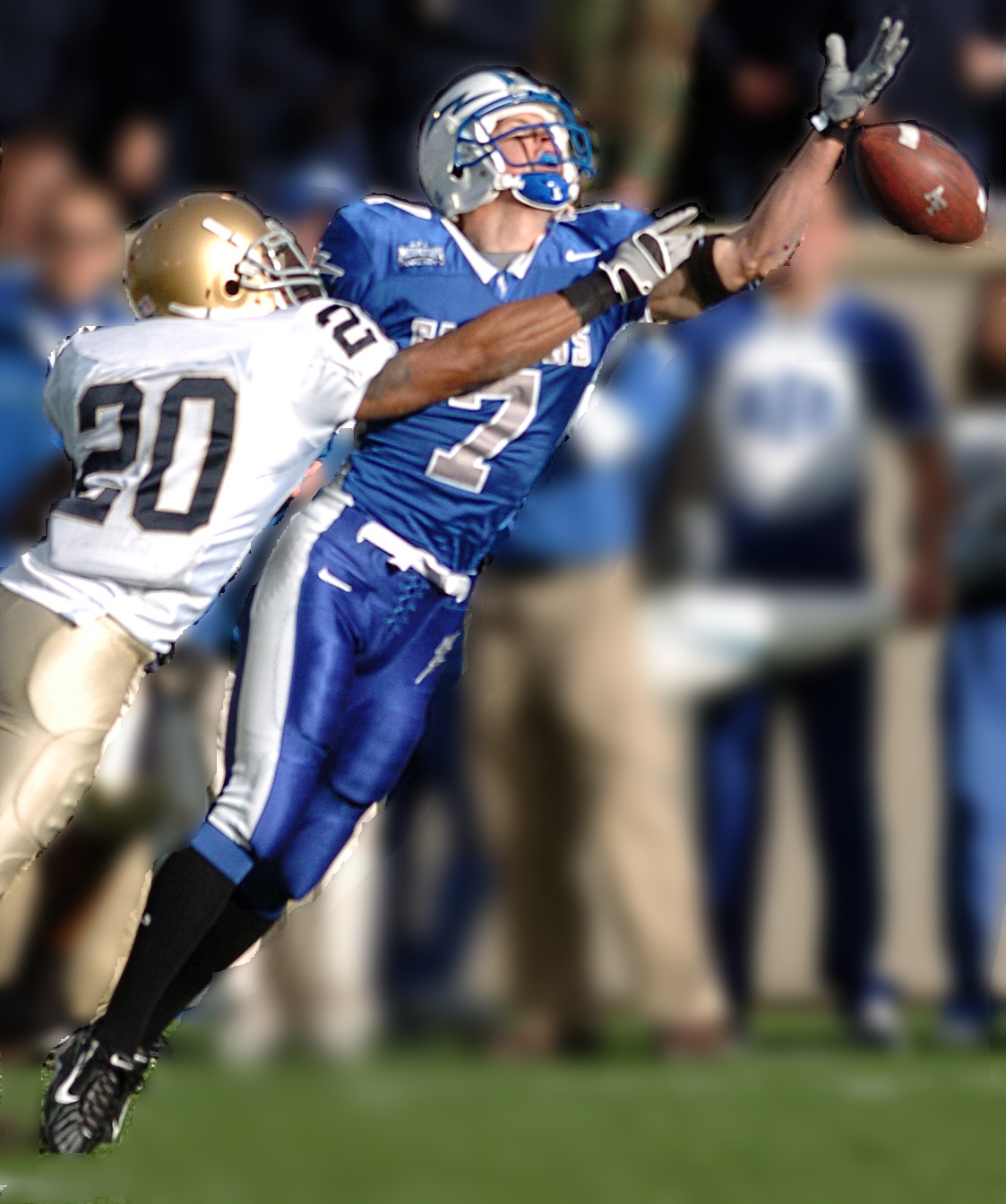 Notre Dame defensive back Terrail Lambert prevents Air Force receiver Mark Root from catching a pass from quarterback Shaun Carney. Lambert was penalized for pass interference on the play. Eighth-ranked Notre Dame won, 39-17.